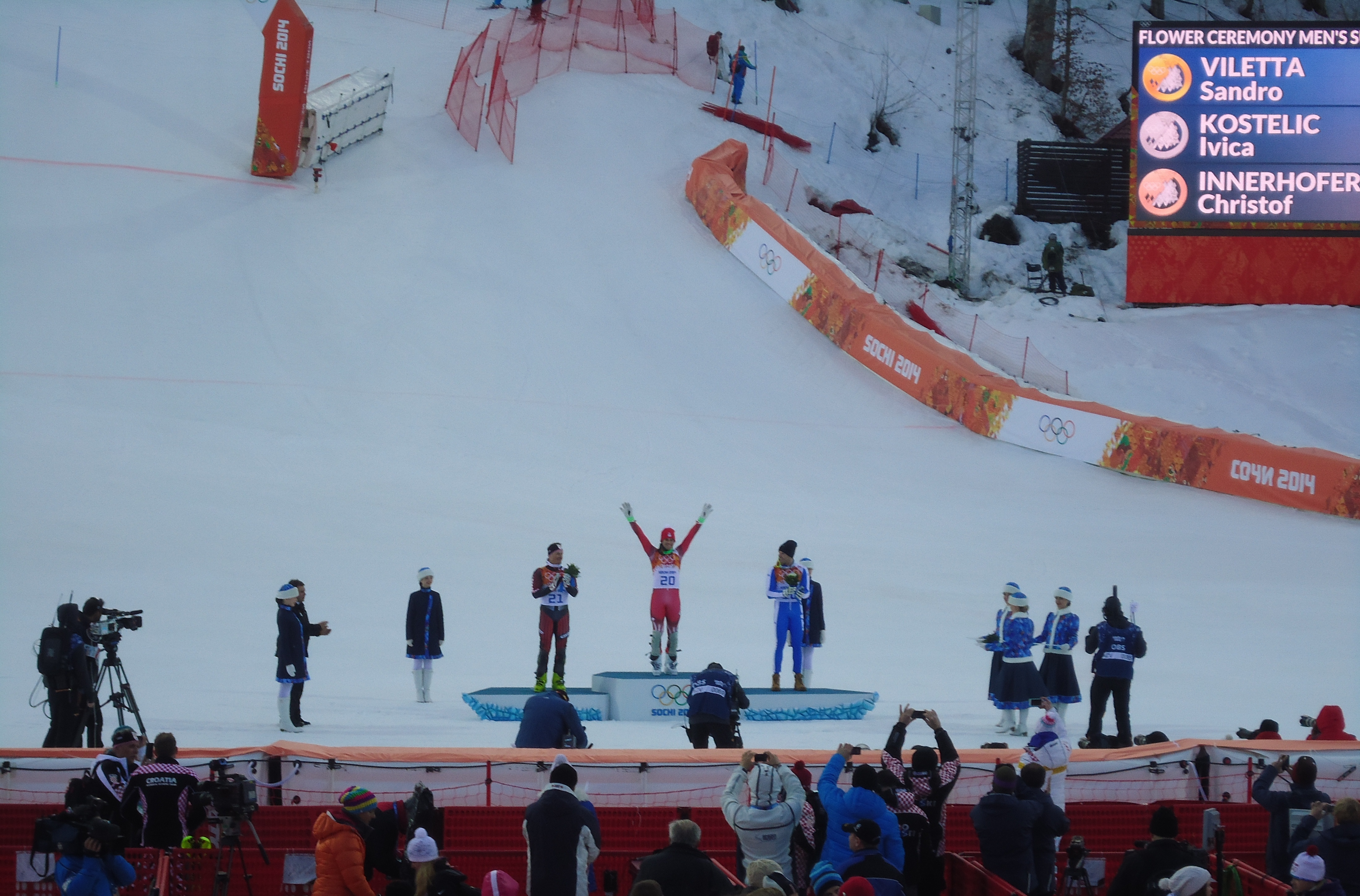 Flower ceremony of winners in a apine combined among men on the alpine skiing Rosa Khutor complex. The winter Olympic Games in Sochi, on February 14, 2014.